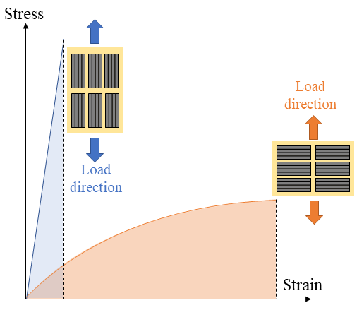 Different stress strain curves for CF-SMC according to fibre orienation